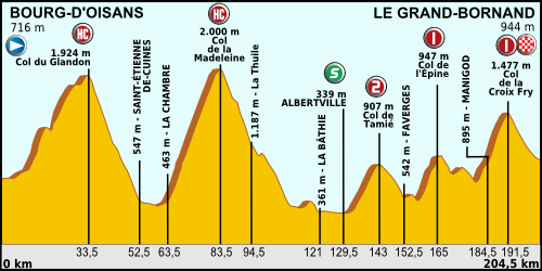 Tour de France 2013 - Profile Stage No. 19